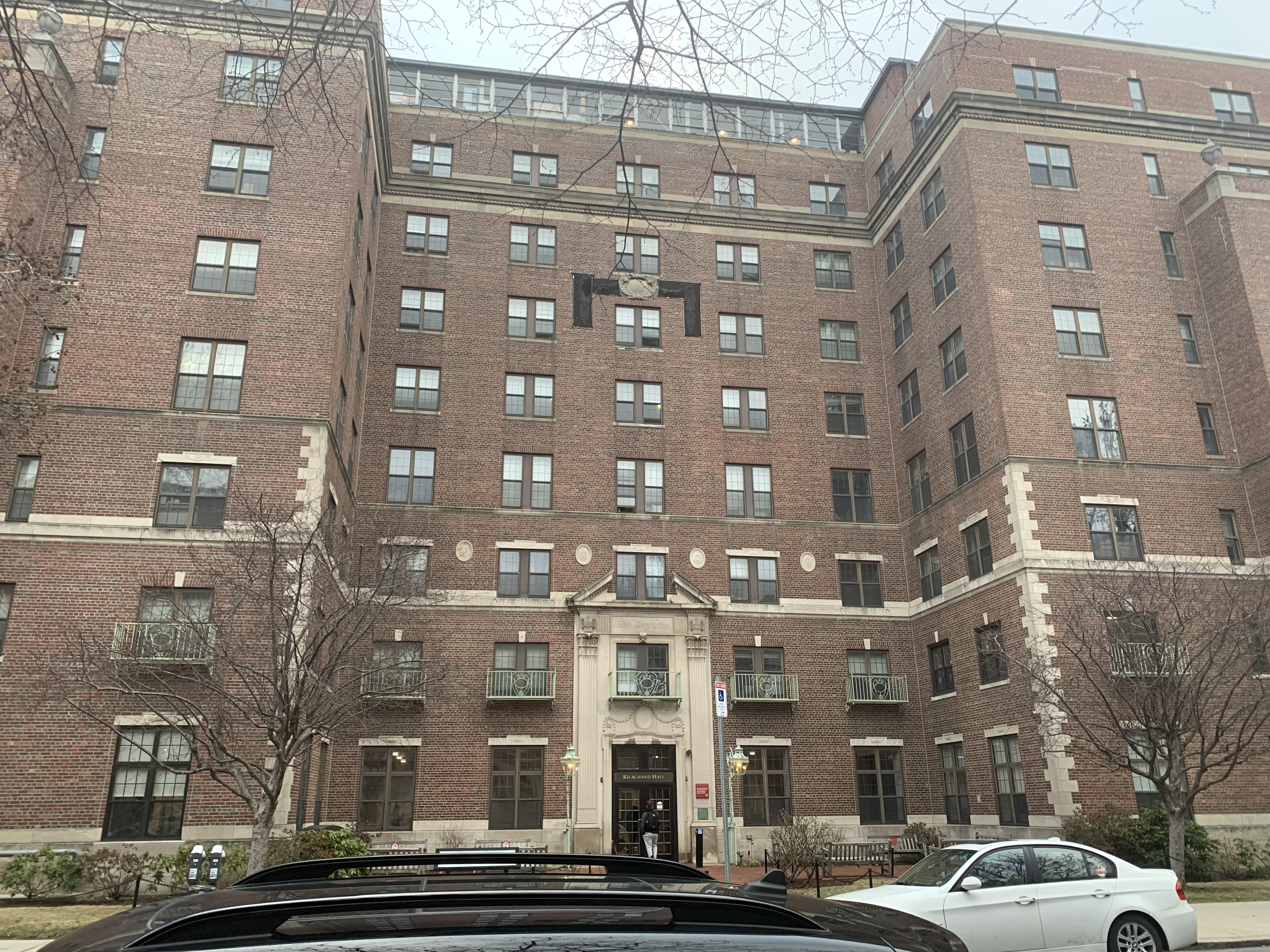 Front of the Kilachand Hall building in the winter.